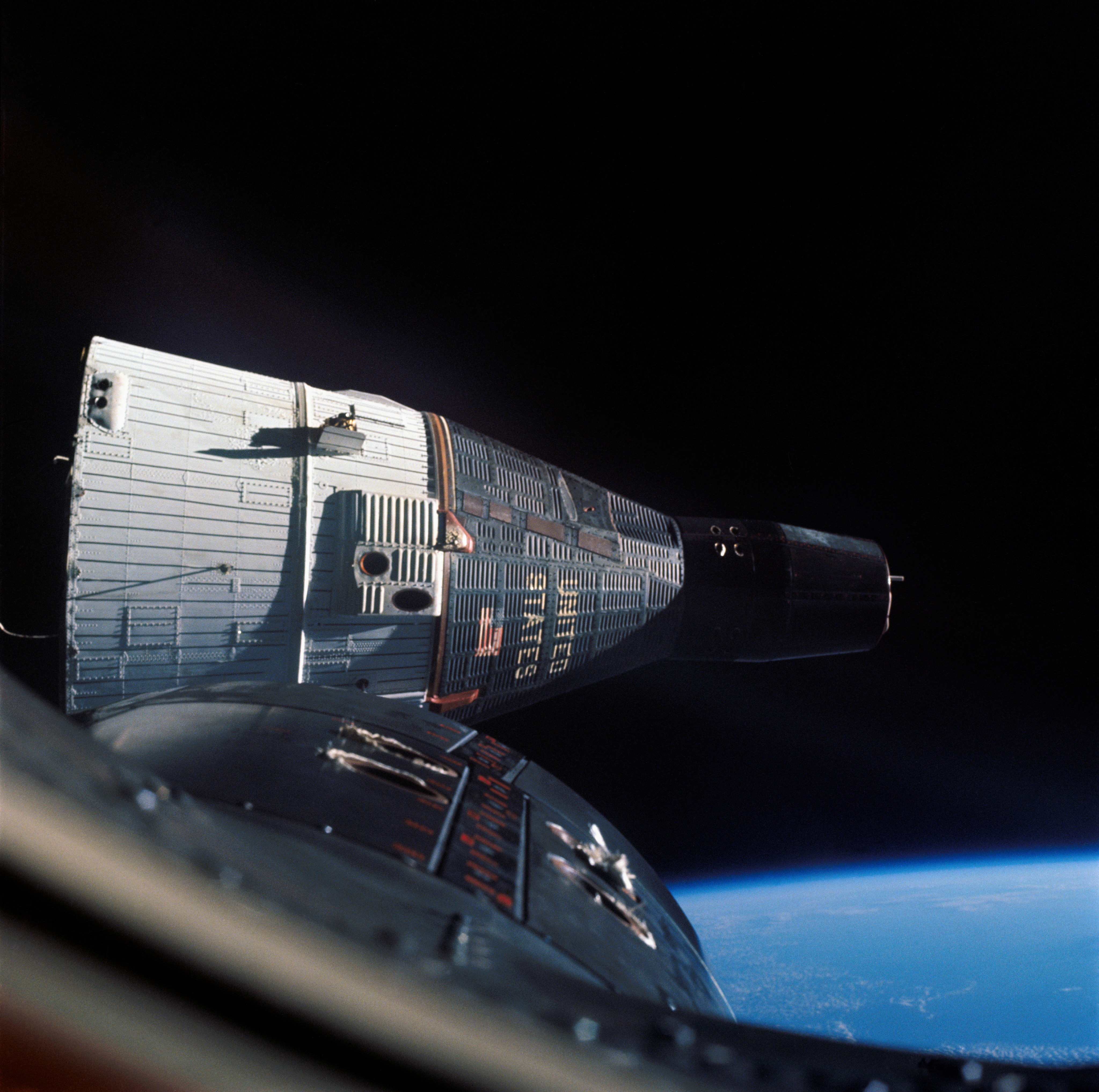 This photograph of the Gemini 7 spacecraft was taken from Gemini 6 during rendezvous and station keeping maneuvers at an altitude of approximately 160 miles above the Earth. Gemini 6 and Gemini 7 launched on December 15, 1965 and December 4, 1965, respectively. Walter M. Schirra, Jr. and Thomas P. Stafford on Gemini 6 and Frank Borman and James A. Lovell on Gemini 7 practiced rendezvous and station keeping together for one day in orbit.